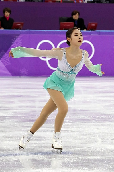 CHOI Dabin KOR – 7th Place